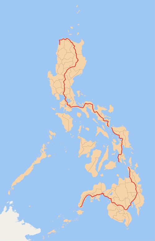 Map of the Philippines (with provincial borders in grey) showing the Pan-Philippine Highway (red). Ferry services connect Luzon to Samar and Leyte to Mindanao, and the San Juanico Bridge connects Samar and Leyte. Made by me, released under the GFDL.